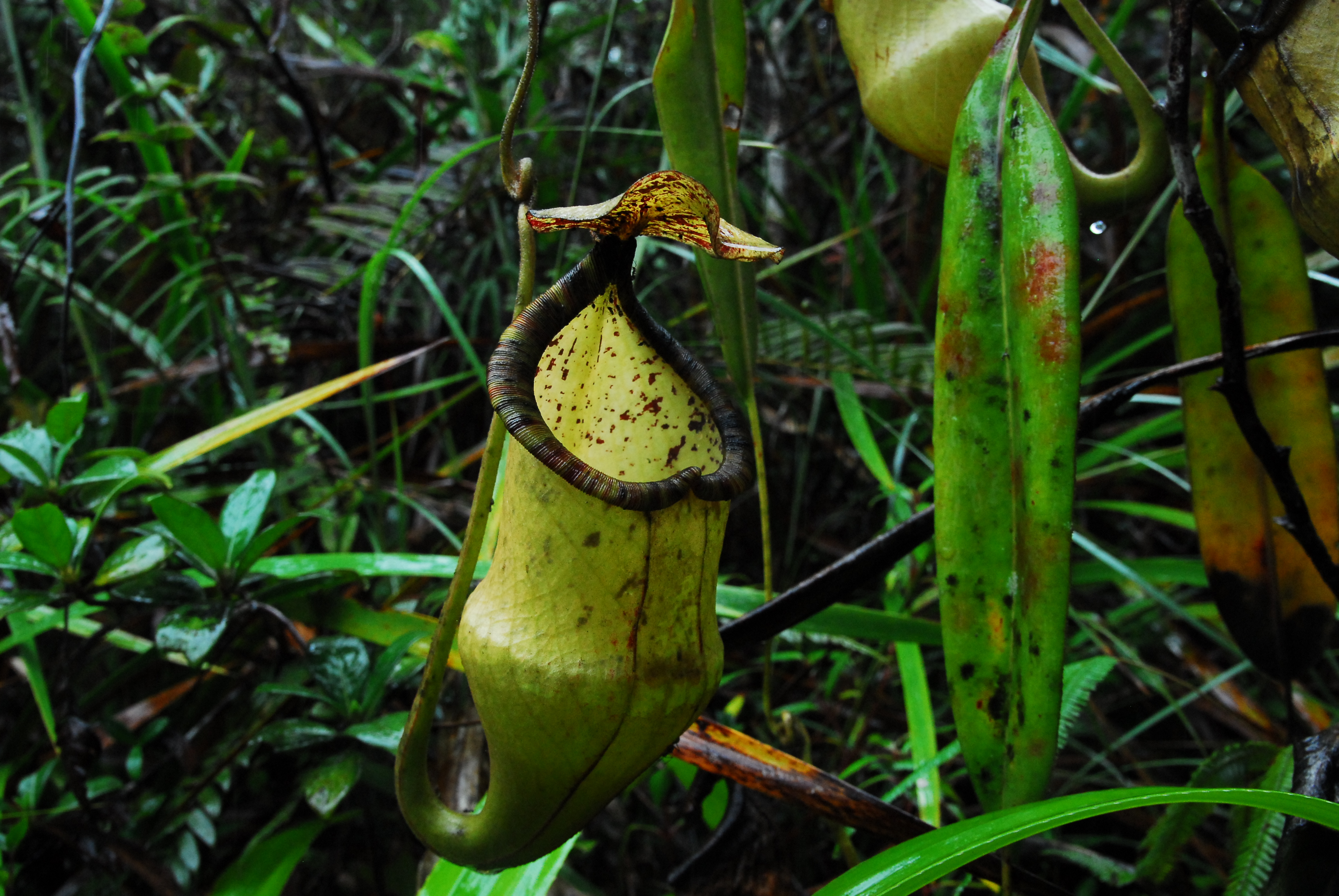 Nepenthes hamiguitanensis upper pitcher from Mount Hamiguitan, Mindanao, Philippines